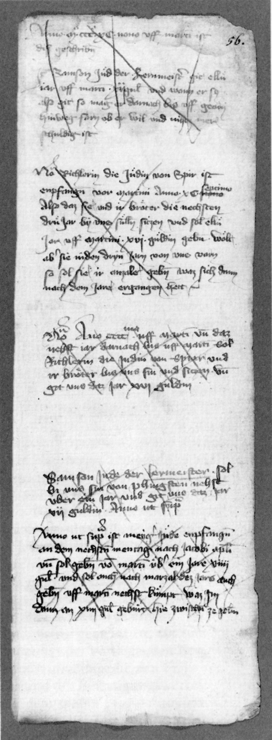 Page from the Heilbronn Betbuch (taxbook) from 1399 mentioning Heilbronn Jews